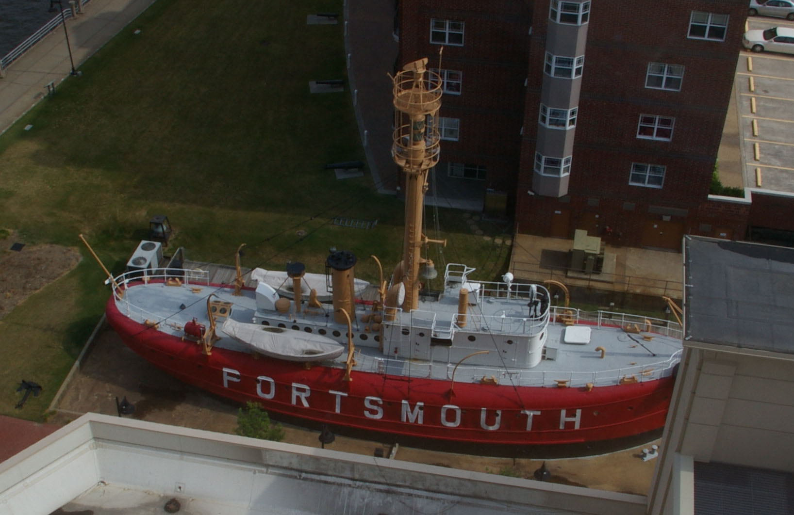 Portsmouth, Virginia Lightship June 2007. Photographer: Joy Schoenberger